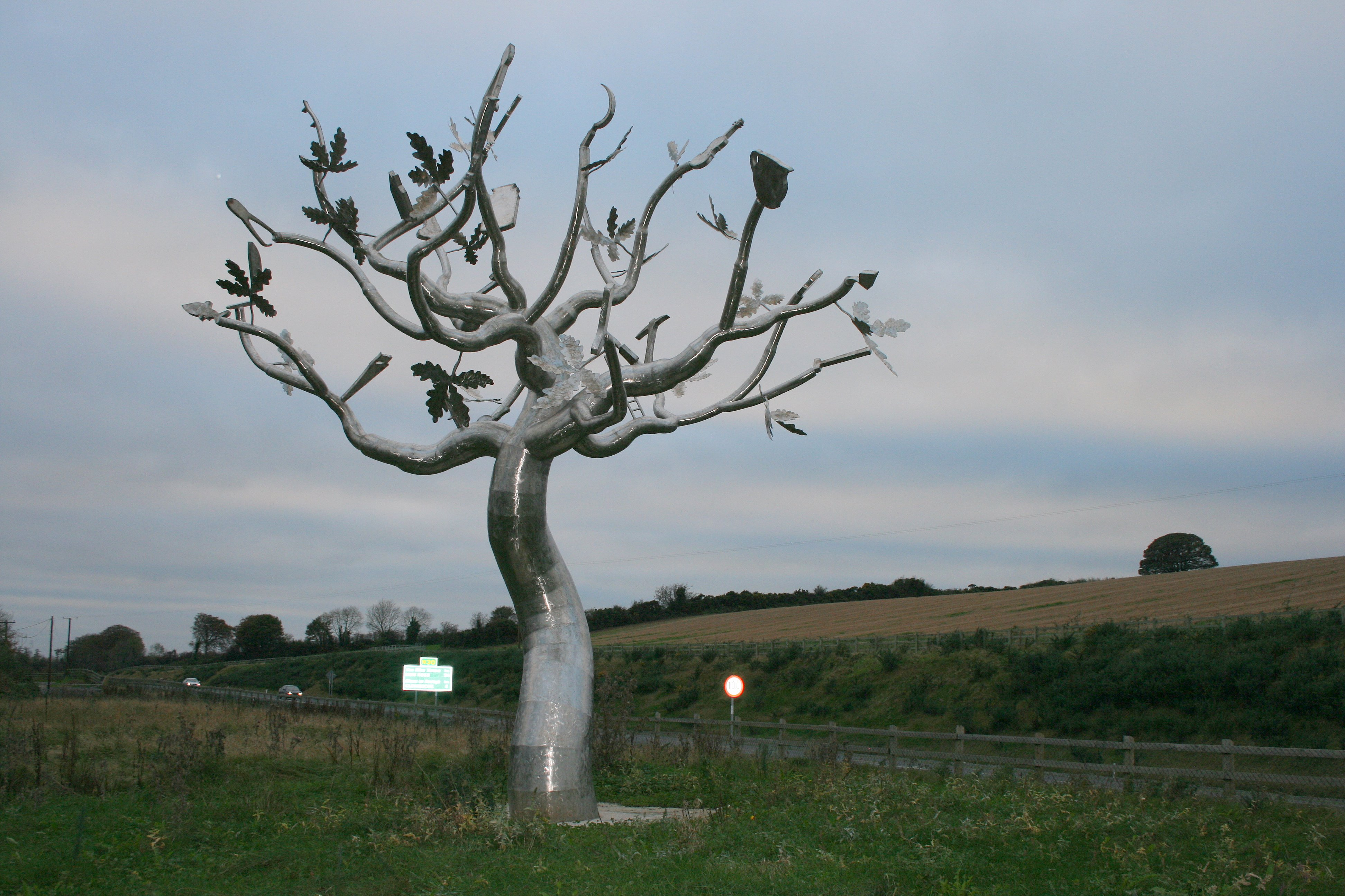 Silver Oak Tree on the N30 road in County Wexford, Ireland